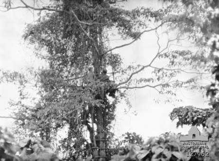 AWM description: NG2191 Sergeant J B McAdam, New Guinea Volunteer Rifles, and Damien Parer, Official Cinematographer, observe Japanese movements from a secret tree top observation post above Nuk Nuk. This post was established by the New Guinea Volunteer Rifles and was also used by the New Guinea Air Warning Wireless Company (NGAWW). It was manned for a six week period by Corporal Ross Kirkwood, who narrowly escaped capture by the Japanese.